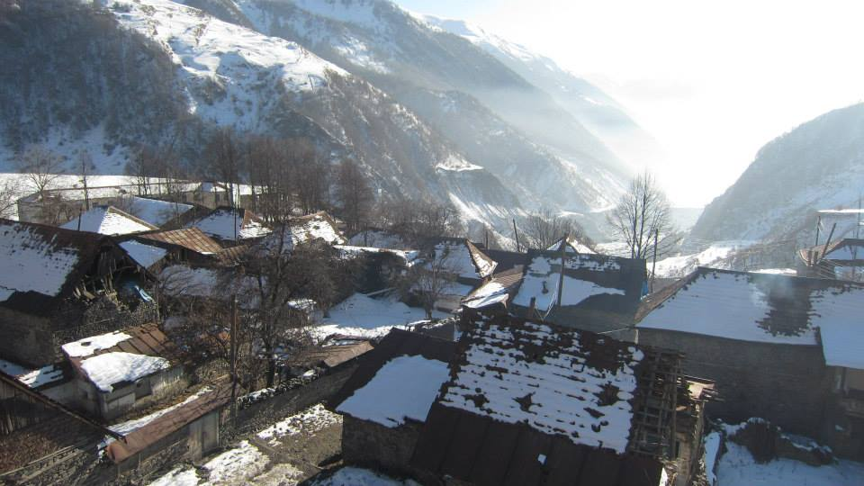 Sarybash village